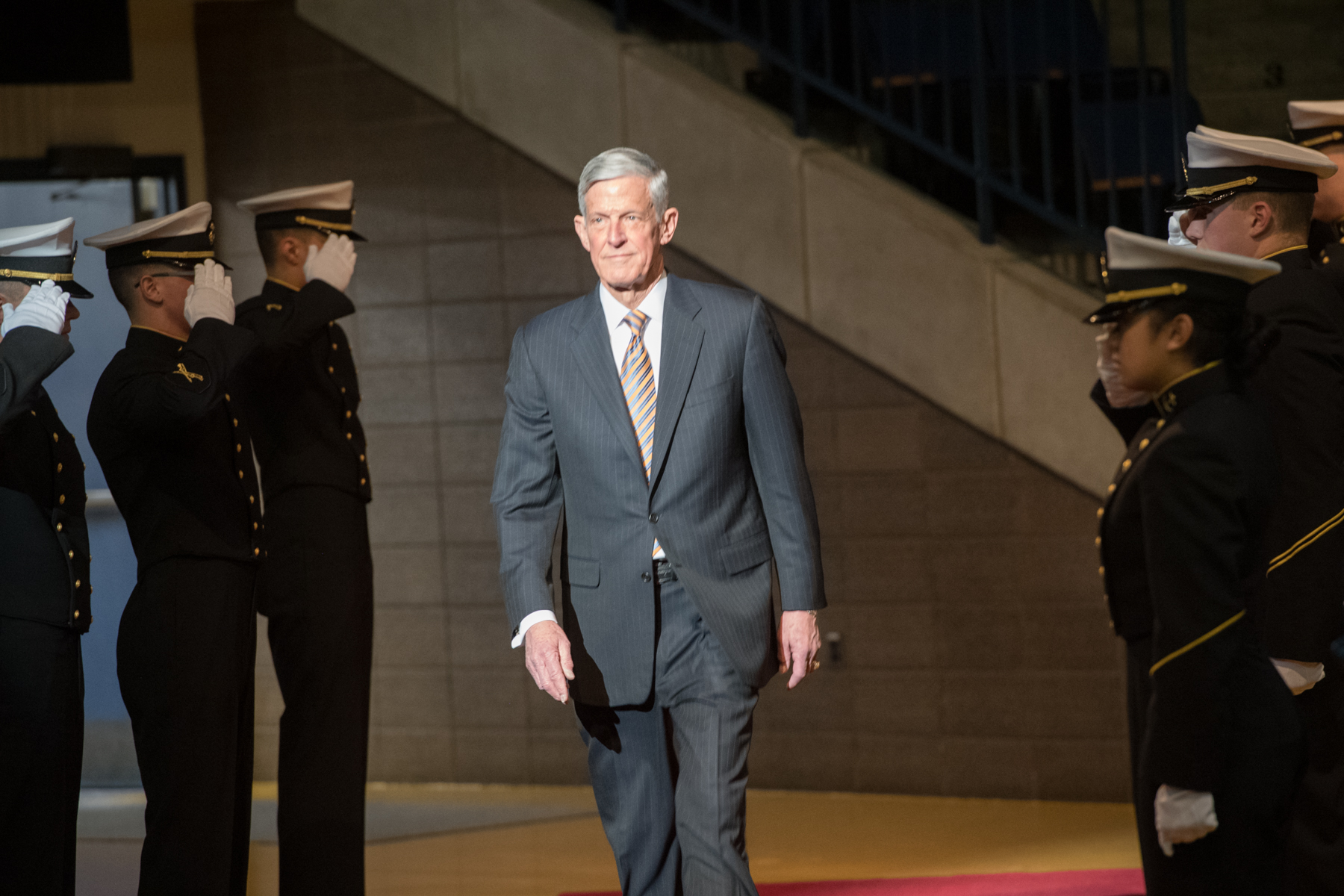 03232018-N-ID678-012